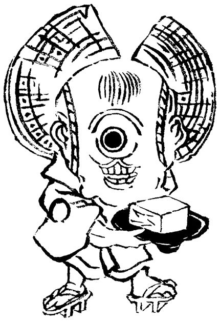 Tōfu-kozō (豆腐小僧, a spirit child carrying a block of tofu) from Ōjidai karano bakemono (大時代唐土化物)